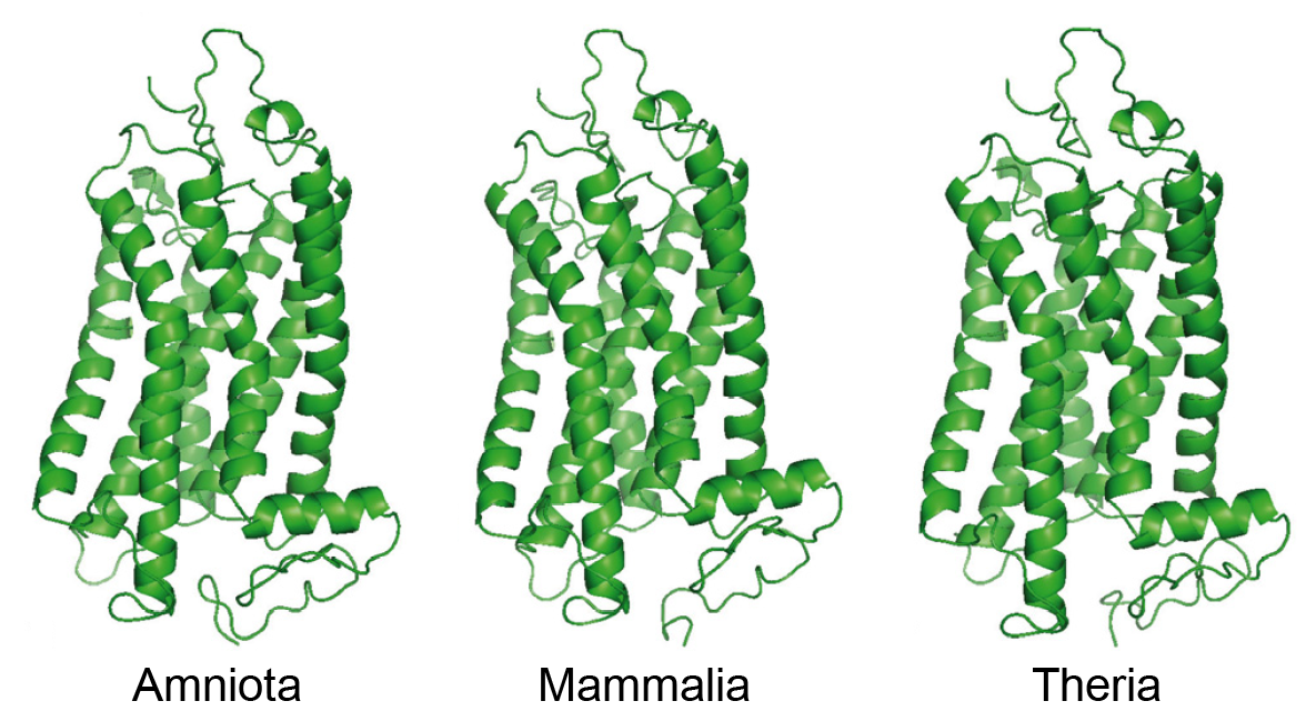 3D structures of the visual pigment rhodopsin of the most recent common ancestors of all amniotes, all mammals, and all higher mammals (Theria), created by means of PyMOL Molecular Graphics System, V 1.3; raw data are obtained from ancestral state reconstruction based on a dataset of 25 tetrapod species.